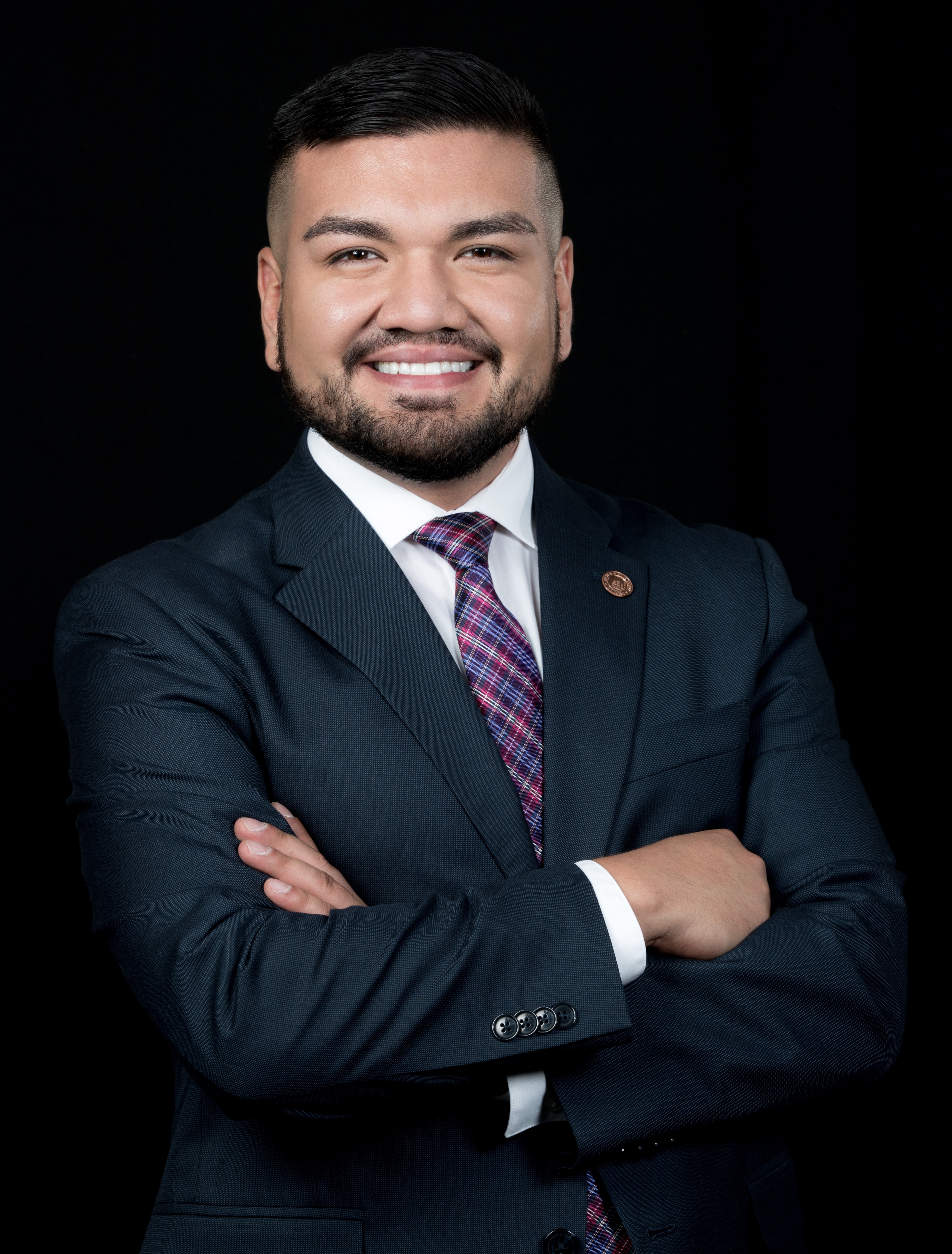 Andres Cano is a State Representative from Arizona.